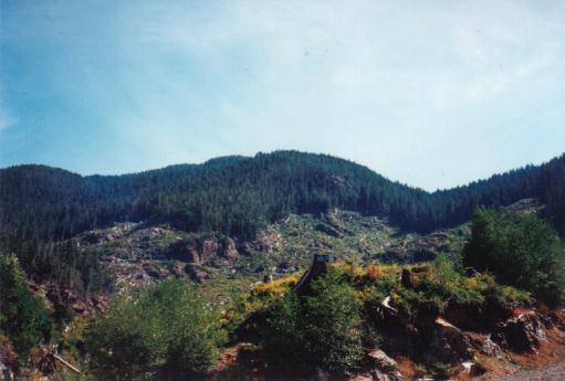 A "Working Forest" near Clayoquot Sound, British Columbia. Replanted in 1987, but much topsoil washed away and more resembling a desert.